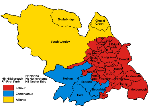 Ward map of Sheffield Council with political colouring for the 1986 election.